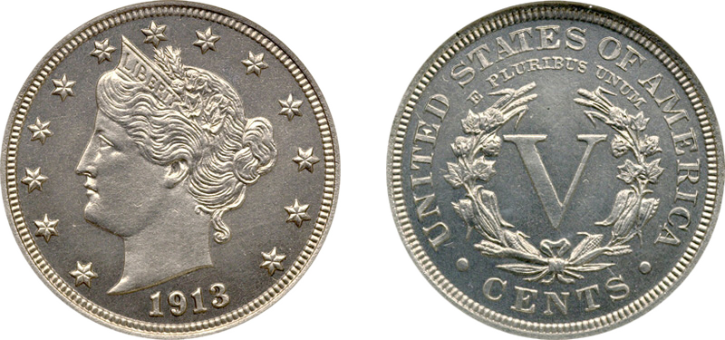 The 1913 Liberty Head nickel (Eliasberg specimen). This photo was provided by Superior Galleries for promotional purposes, and was taken from . As a U.S. coin, the design is in the public domain, and per WP:IUP: "Also note that in the United States, reproductions of two-dimensional artwork which is in the public domain because of age do not generate a new copyright — for example, a straight-on photograph of the Mona Lisa would not be considered copyrighted (see Bridgeman v. Corel). Scans of images alone do not generate new copyrights — they merely inherit the copyright status of the image they are reproducing." Since this is simply a straight-on photo or scan, with no creative aspect involved, it should not be subject to copyright as per this precedent.